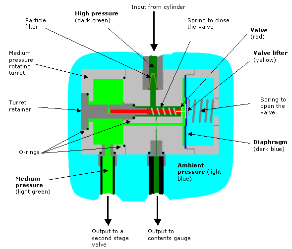 The internal components of a diaphragm-type first stage of a diving regulator